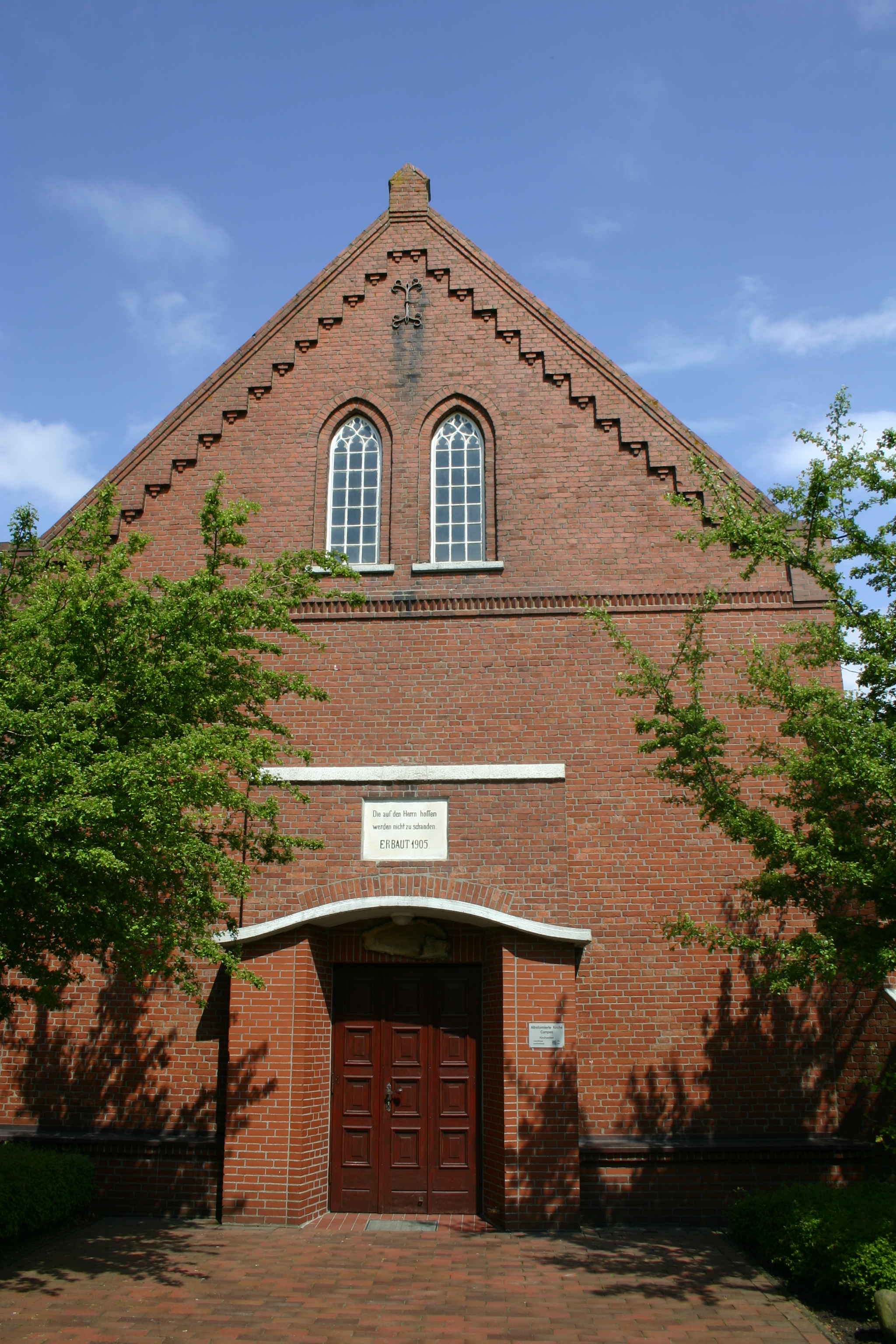 Historic church in Campen, district of Aurich, East Frisia, Germany (old-reformed)